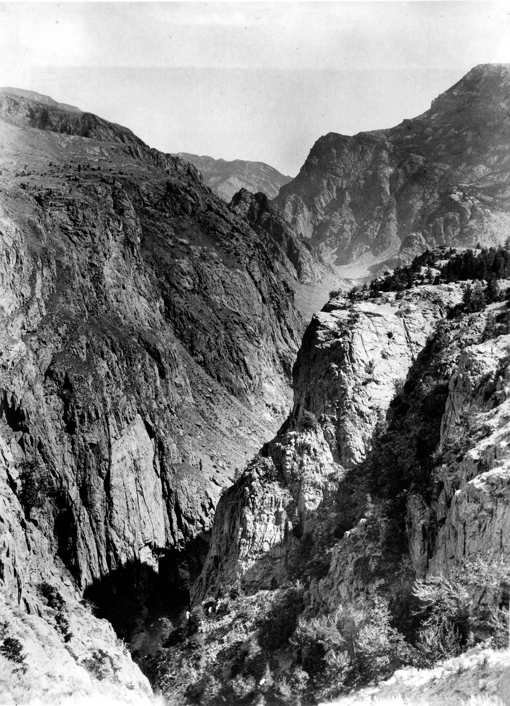 Canyon of Clark Fork, a deep, narrow gorge with abrupt walls, cut in Archean rocks, which drains the greater part of the northern end of the Absaroka Range. Yellowstone National Park. Wyoming. August 20, 1893. Figure 4 in U.S.Geological Survey. Folio 52. 1898.